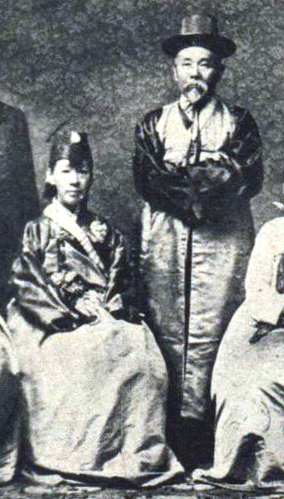 Hirobumi Ito (伊藤博文, 1841–1909, right) as Governor of Korea (1906-09), with his wife Umeko